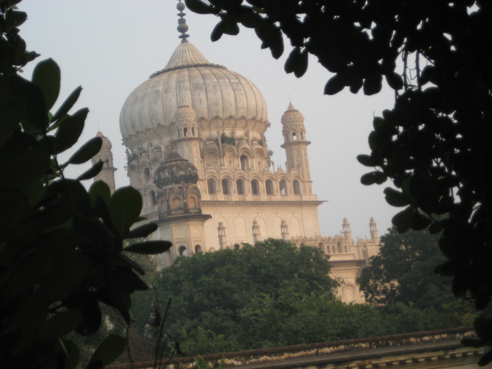 Bahu Begum ka Maqbara: The mausoleum of the queen of Awadh, Faizabad, India